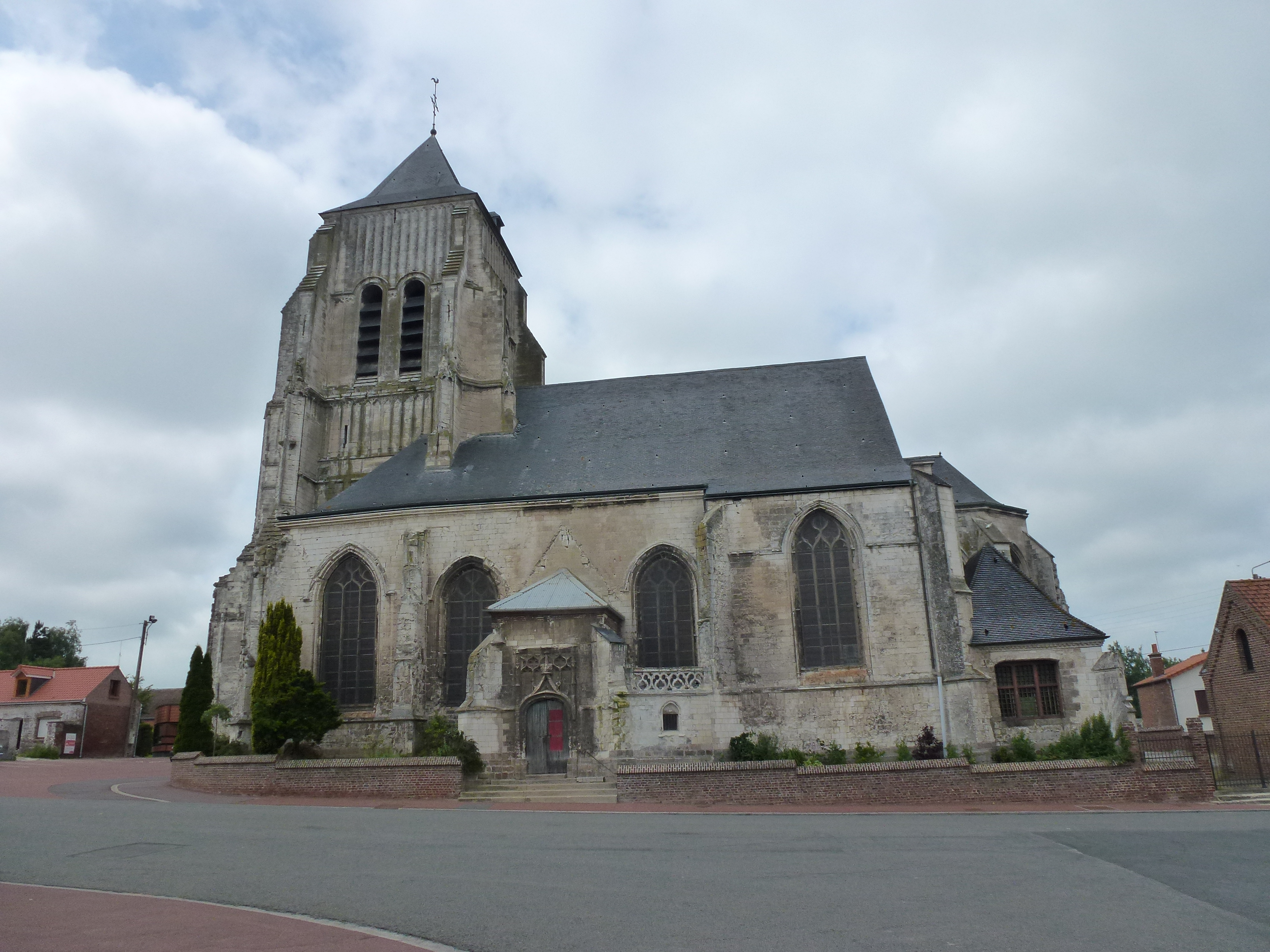 Isbergues (Pas-de-Calais) église